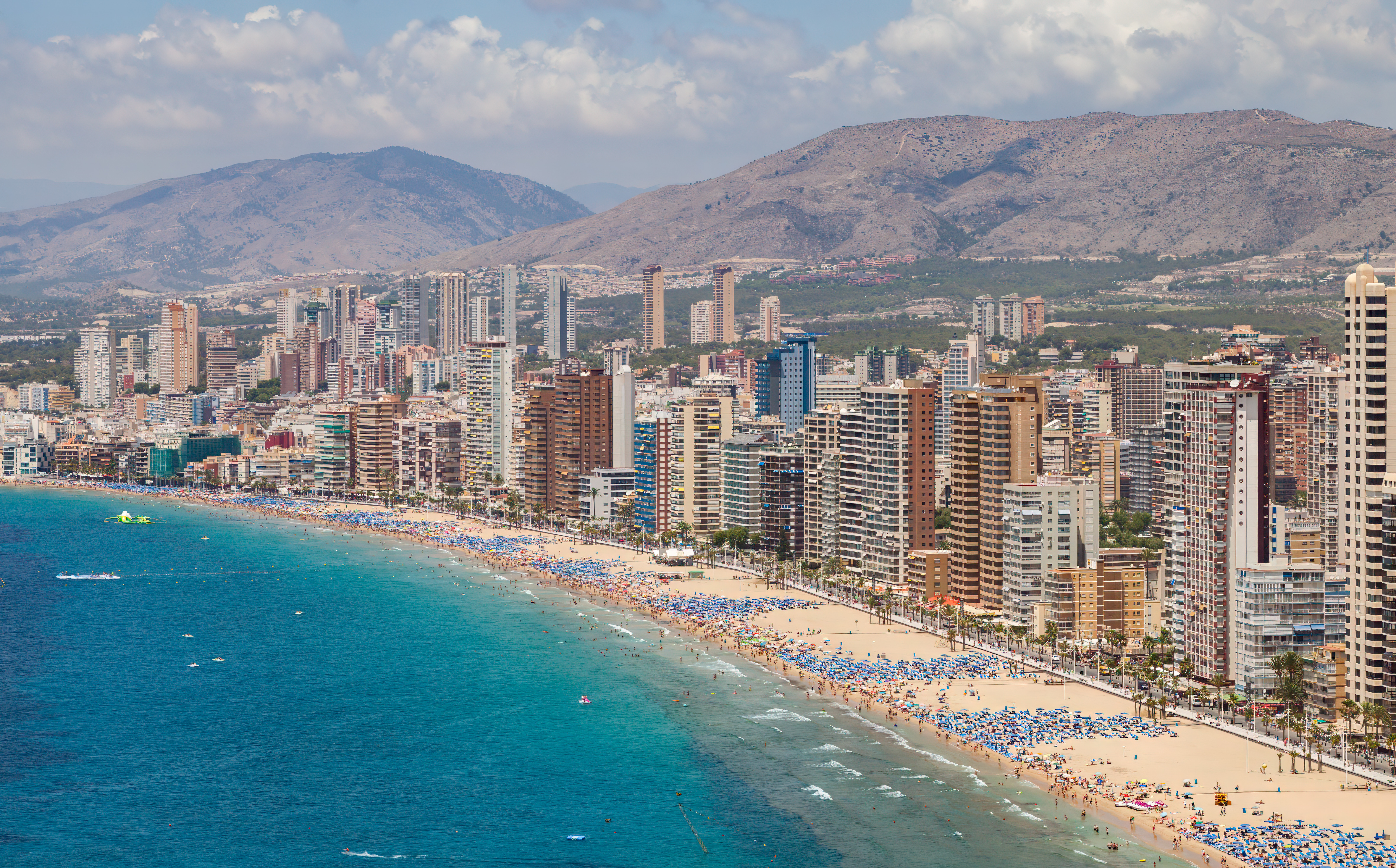 Levante beach, Benidorm, Spain